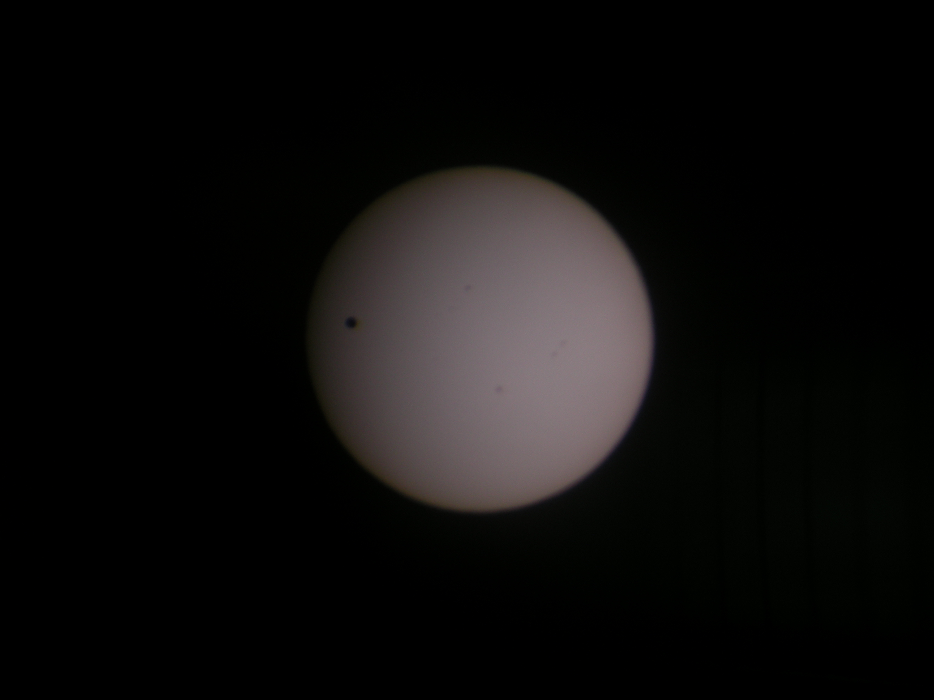 Transit of Venus, taken by Realidad y Illusion at Seoul, South Korea on June 6 2012 at 8:57 KST, June 5 2012 at 23:57 UTC